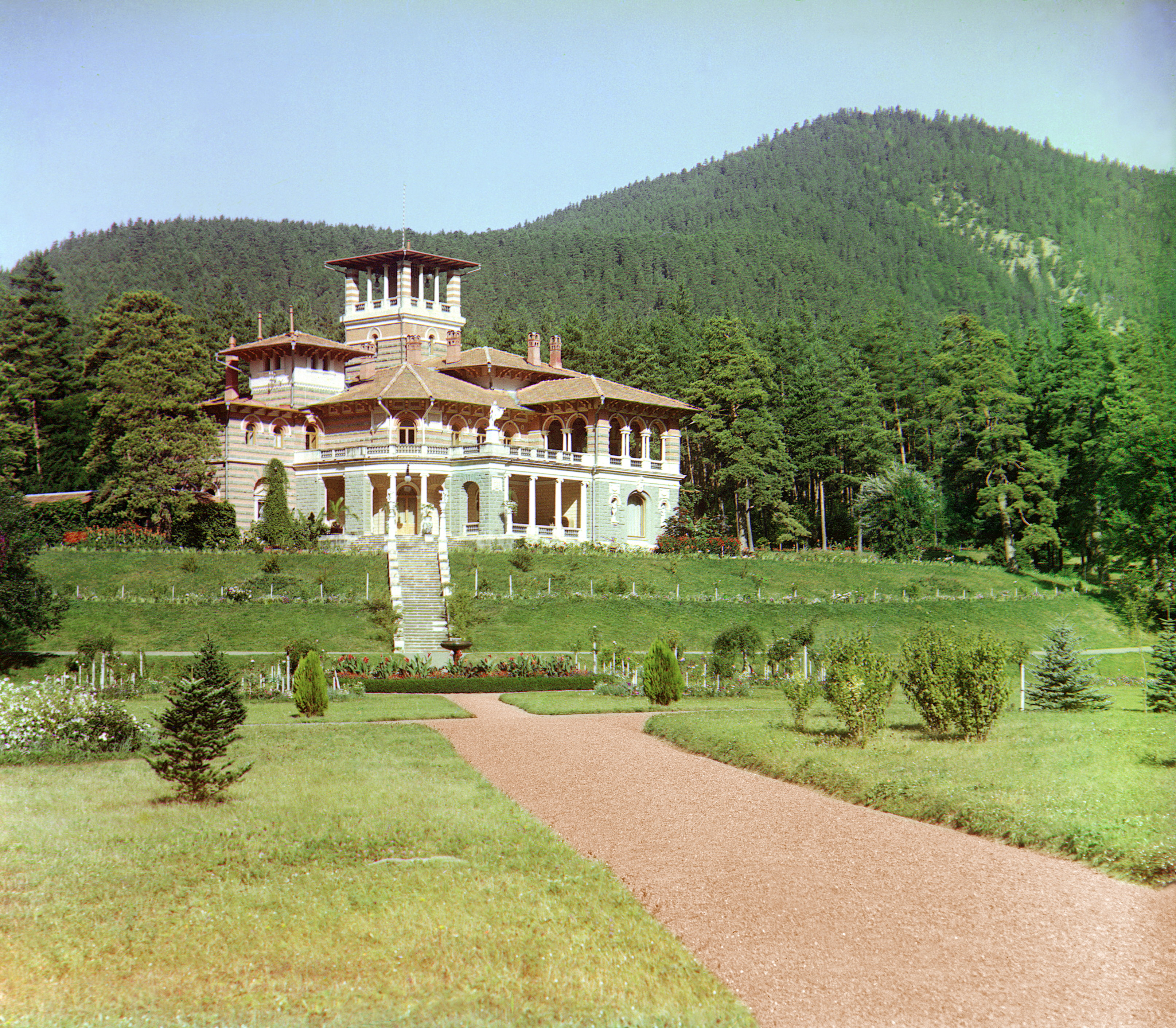 Early color photograph from Russia, created by Sergei Mikhailovich Prokudin-Gorskii as part of his work to document the Russian Empire from 1909 to 1915. Title: Obshchīĭ vid Likanskago dvort︠s︡a ot r. Kury Title Translation: General view of the Likanskii palace from the Kura River